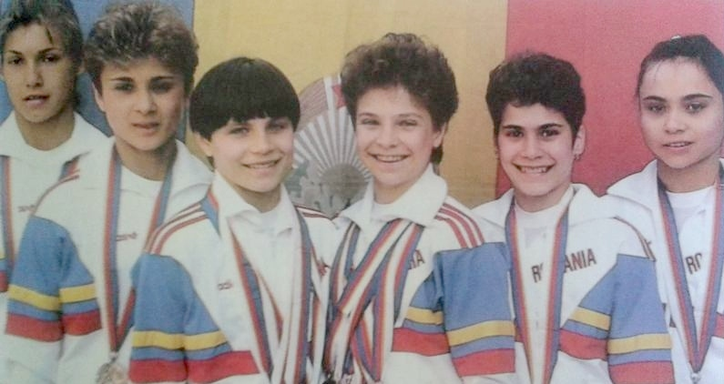 Romanian women's gymnastics team, 1988 Olympics